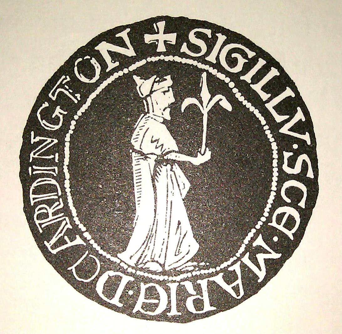 Seal of Arthington Priory, which existed in Lower Wharfedale, North Yorkshire, England until the Reformation when Henry VIII demolished the monasteries. The monastery was on the River Wharfe, about 8 miles north-west of Harewood House, which is at Harewood Village.